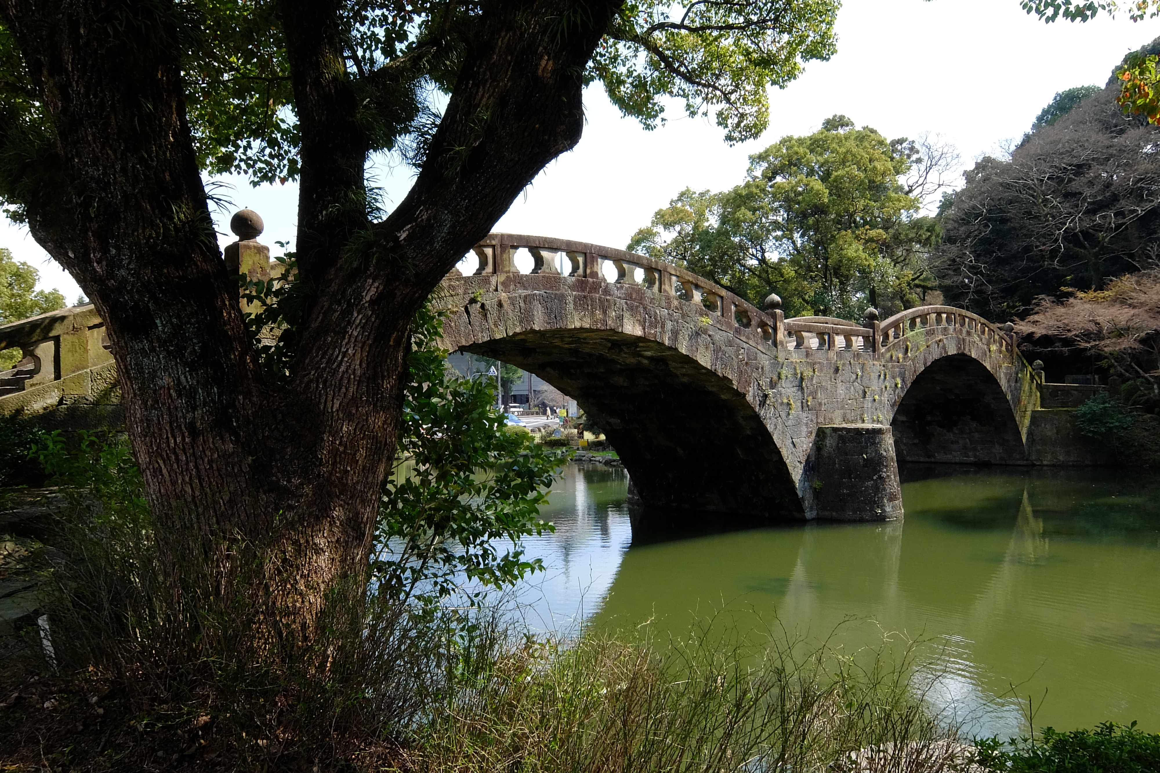 The Megane-bashi of Isahaya Park in Isahaya, Nagasaki prefecture, Japan.